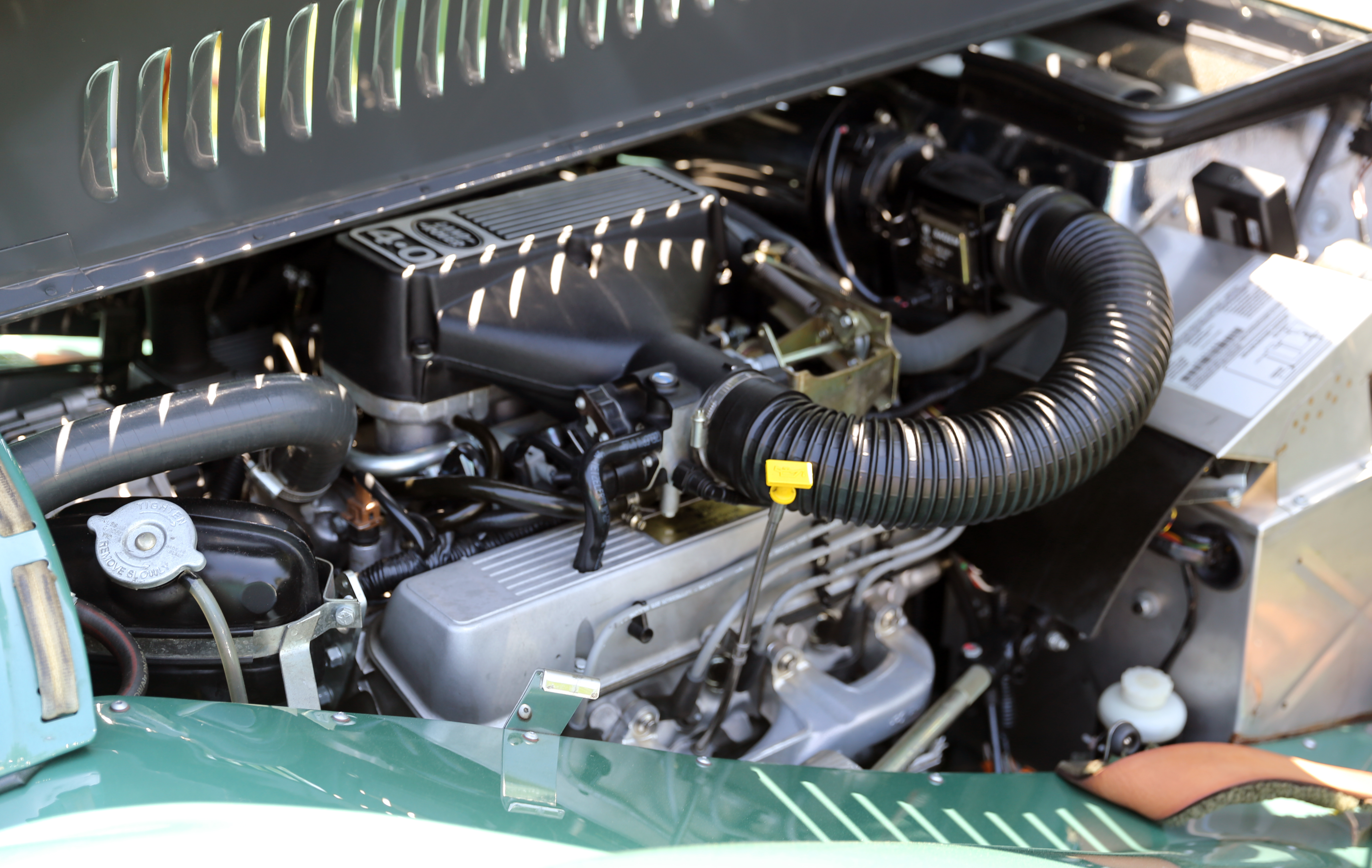 Land Rover 4.0 litre V8 engine of a 2003 Morgan +8 35th Anniversary Edition at the 2013 Greenwich Concours d'Elegance. This engine began its existence in a 1950s Buick, here it is installed in a 1930's British car...